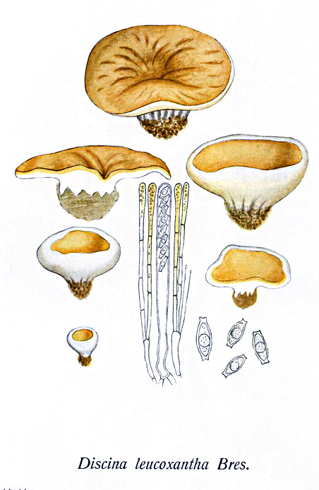 Giacomo Bresadola: Iconographia Mycologica Vol. 24" Tab. 1197: Gyromitra leucoxantha as Discina leucoxantha, Latin Description